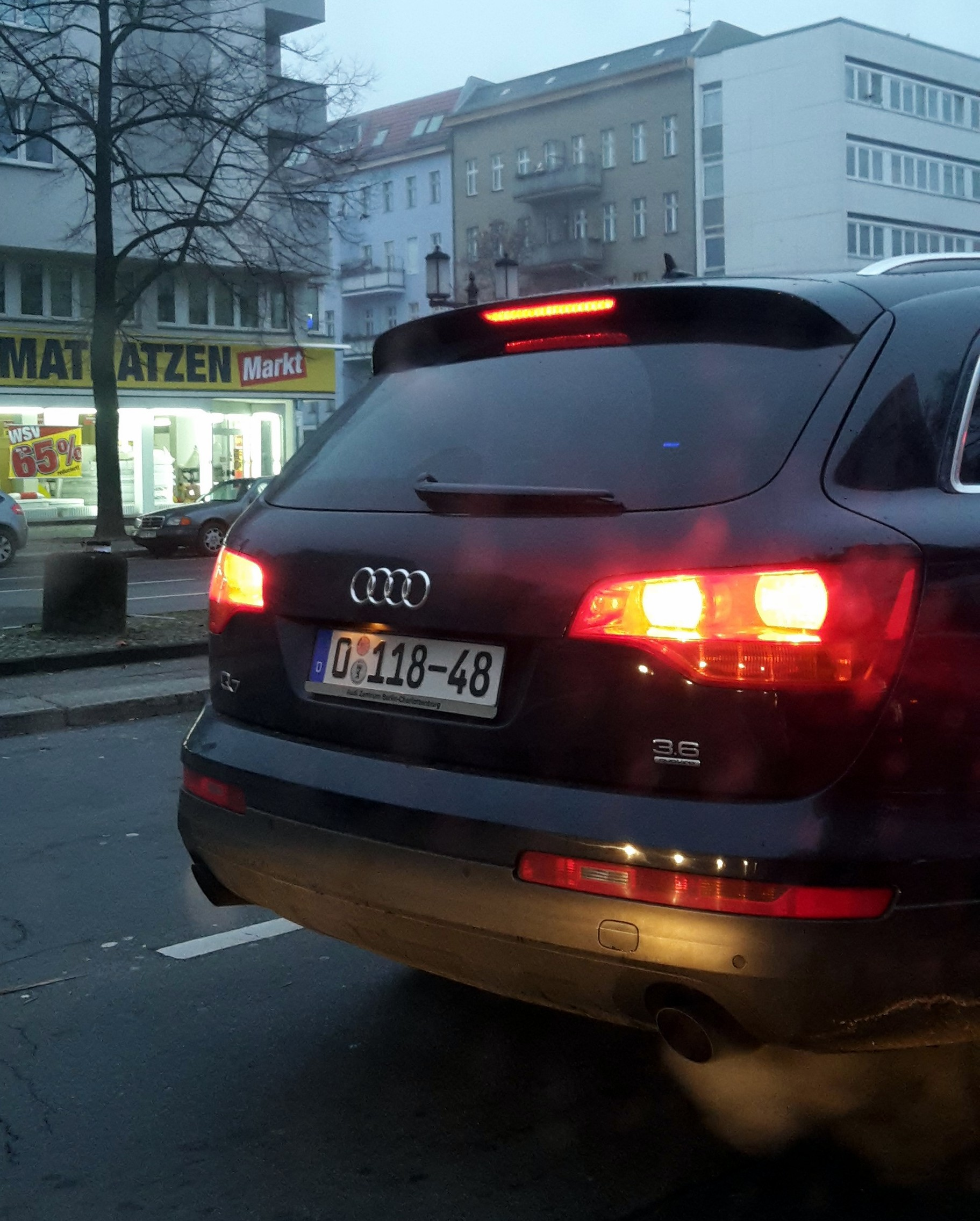 Audi Q7 (4L) as a vehicle of the emabassy of Saudi Arabia in Germany